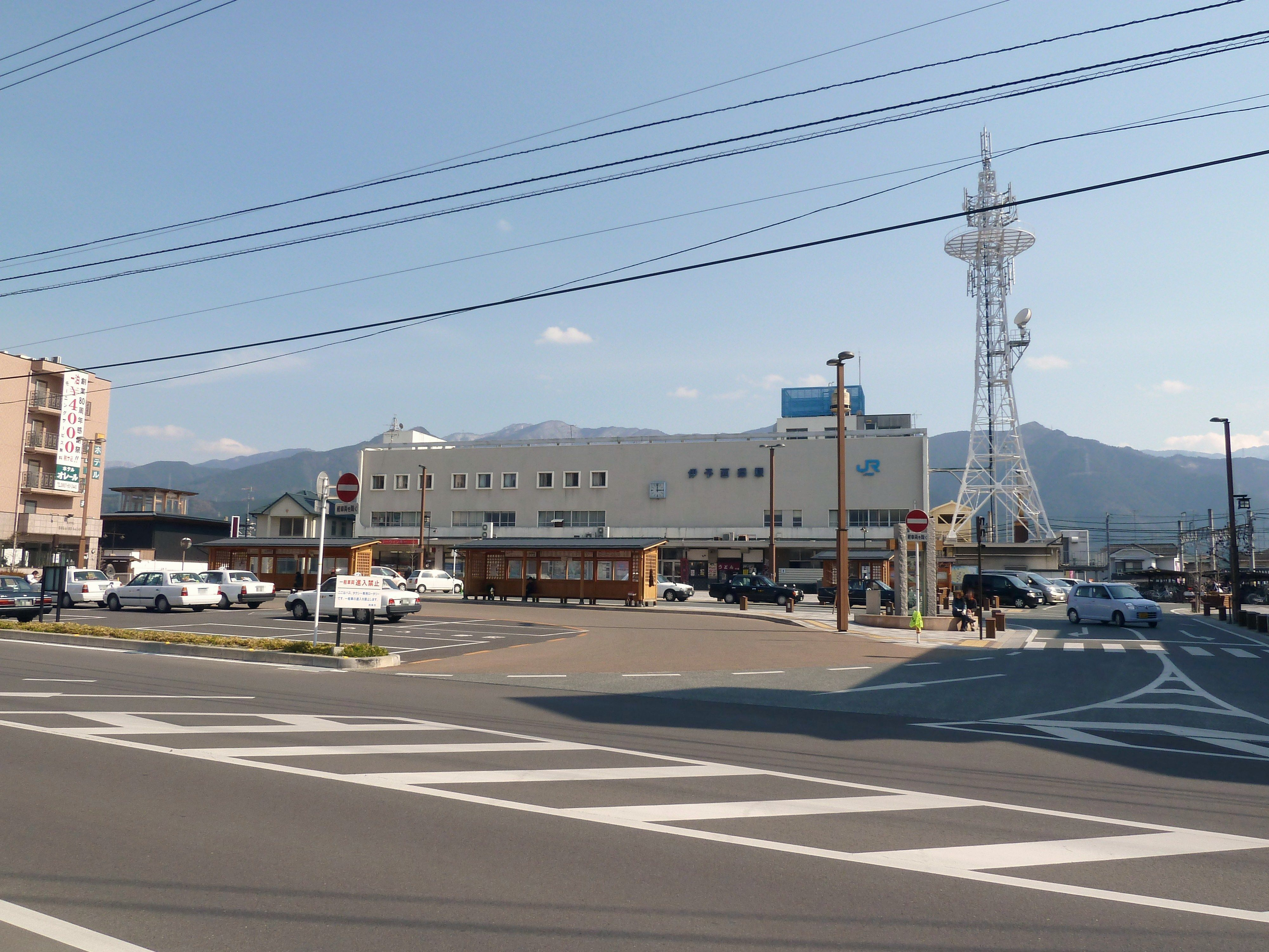 Iyo-Saijo Station